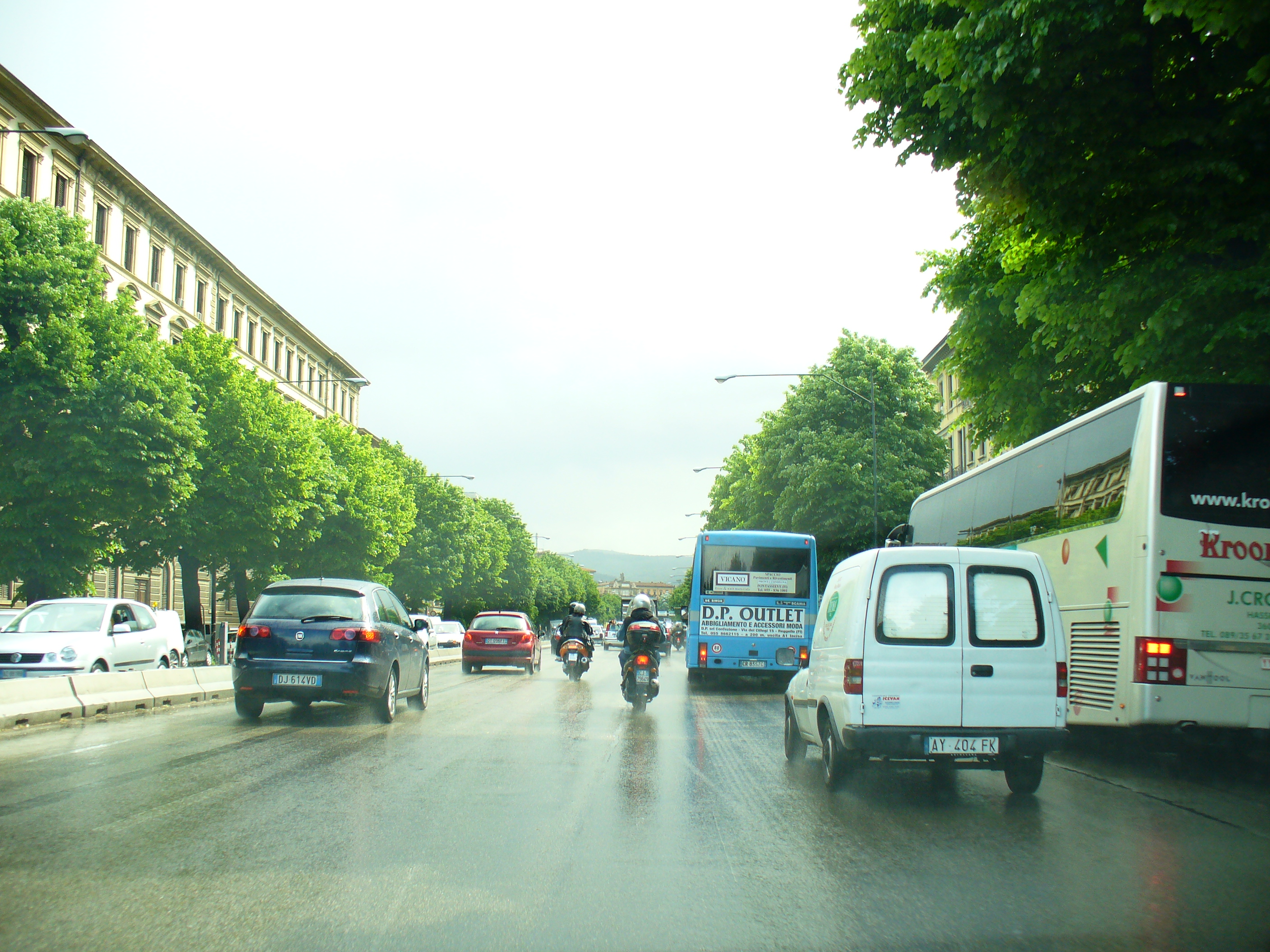 Viale Spartaco Lavagnini (Firenze)